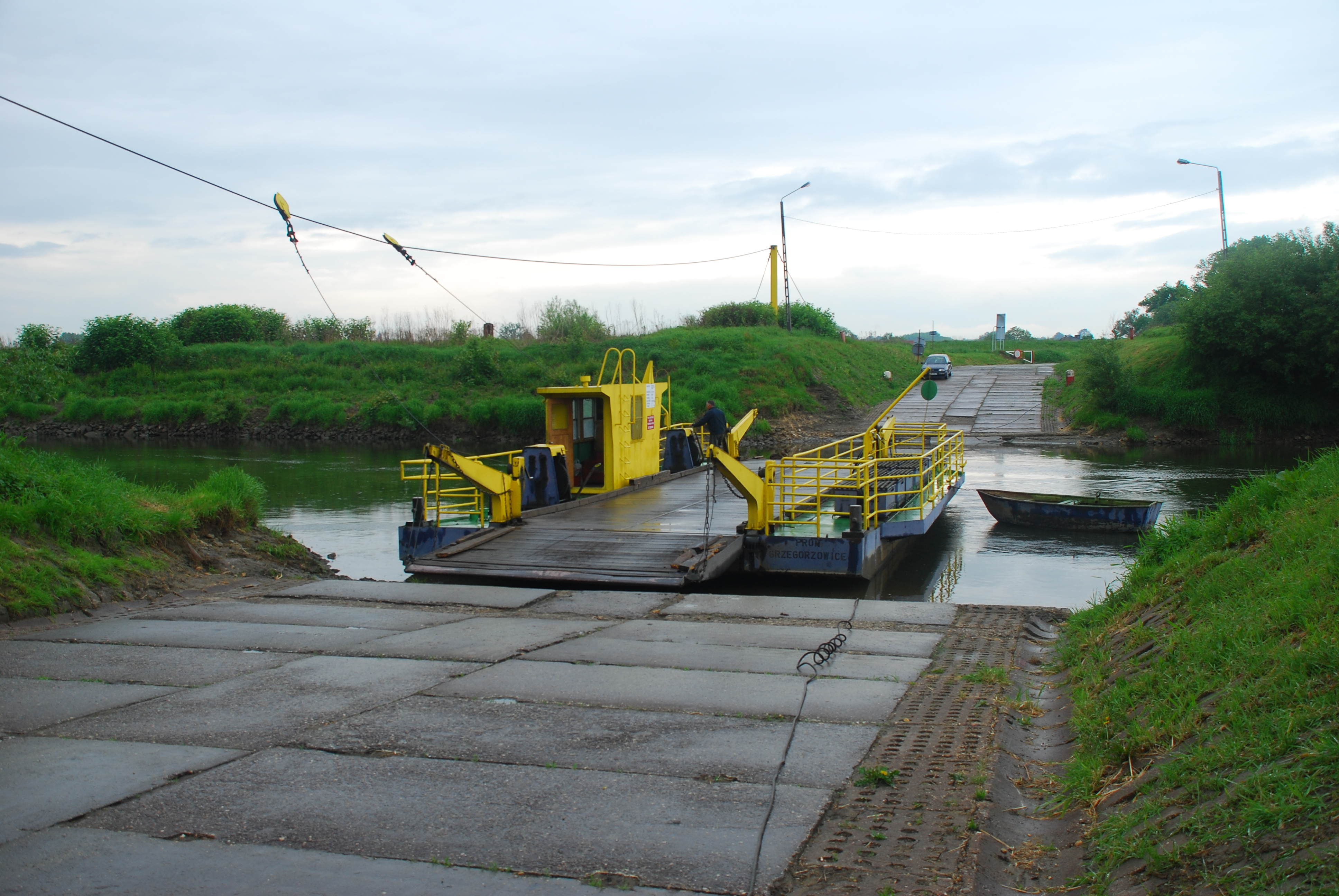 Open - info +48327819211 (7:30 - 15:30)